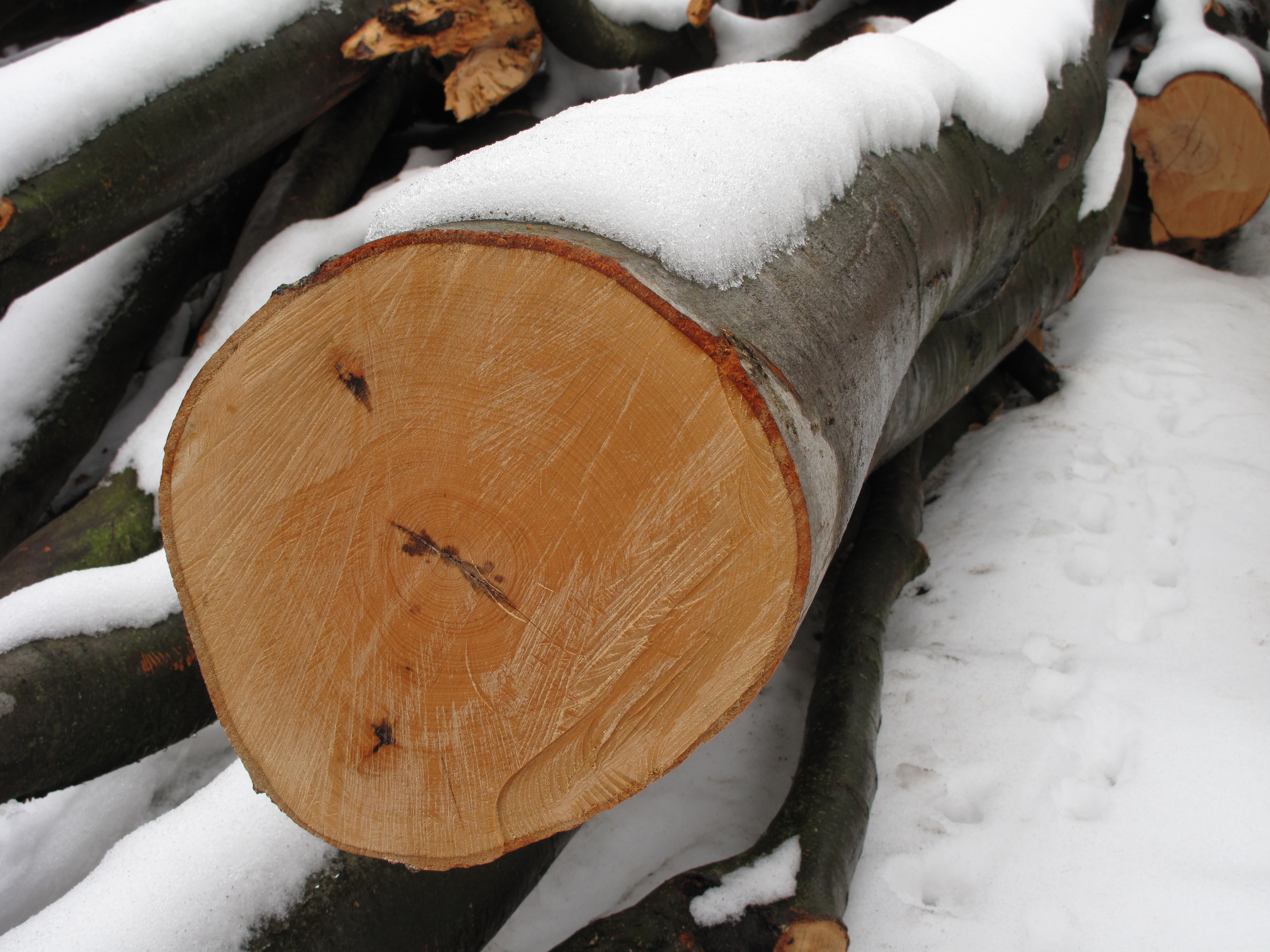 Beech growth rings in Hornopožárský Forest, Czech Republic.